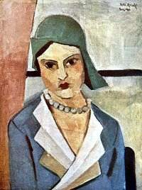 Hale (Salih) Asaf (1905-1938) a female Turkish painter of Georgian descent.